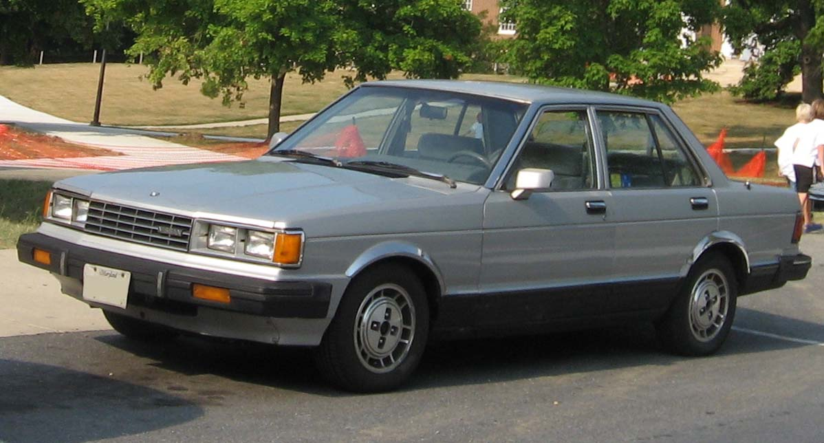 1984 Nissan Maxima photographed in USA.